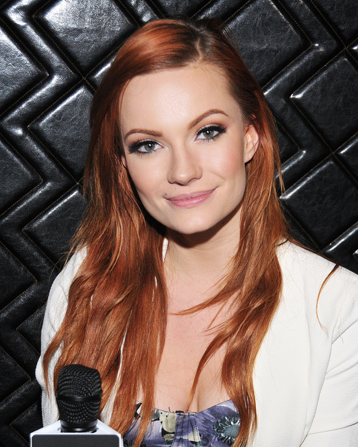 Caitlin O'Connor, Hollywood California on March 3, 2016 - Photo by Glenn Francis of